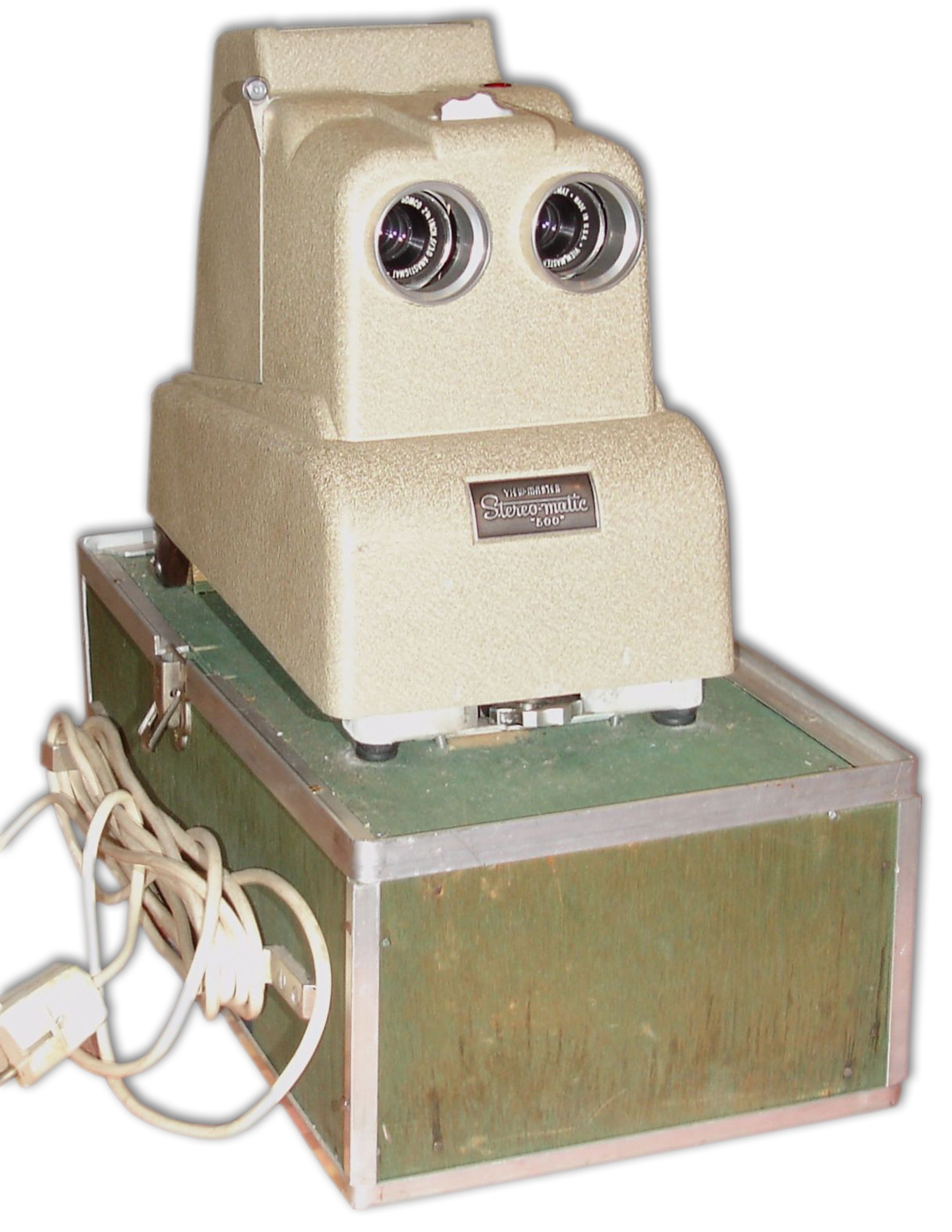 View-Master projector